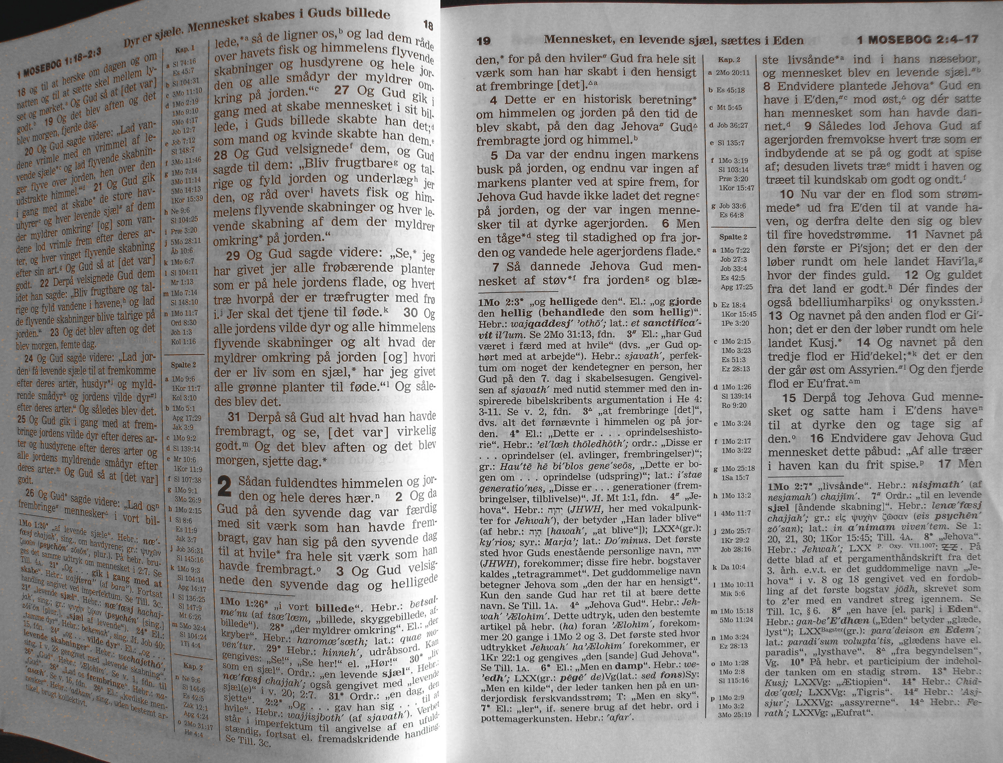 Example of page from New World Translation of The Holy Scriptures, study edition, Danish